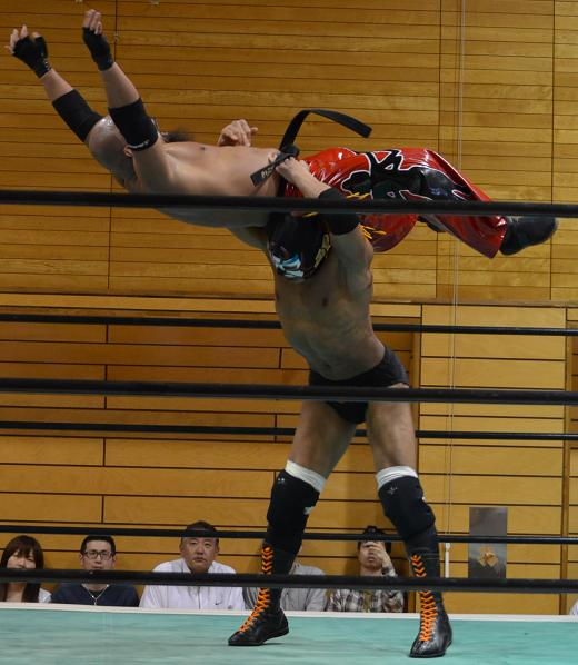 サンダーファイヤーパワーボム